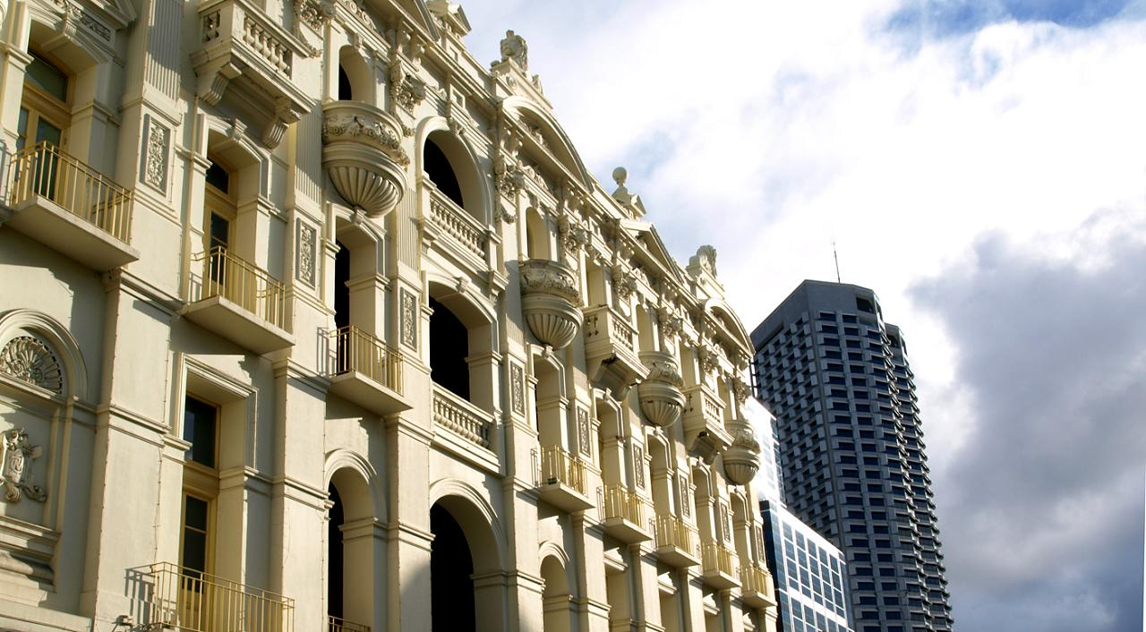 His Majesty's Theatre in the foreground, with QV1 in the background, in Perth, Western Australia.